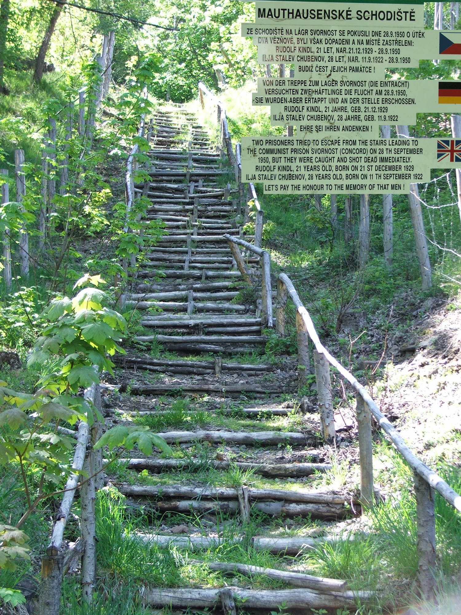 Jáchymov, camp Svornost -Concord, communist concentration camp in Czechoslovakia. Picture of wooden stairs - a montage with description down the stairs, Jáchymov (Czechia)